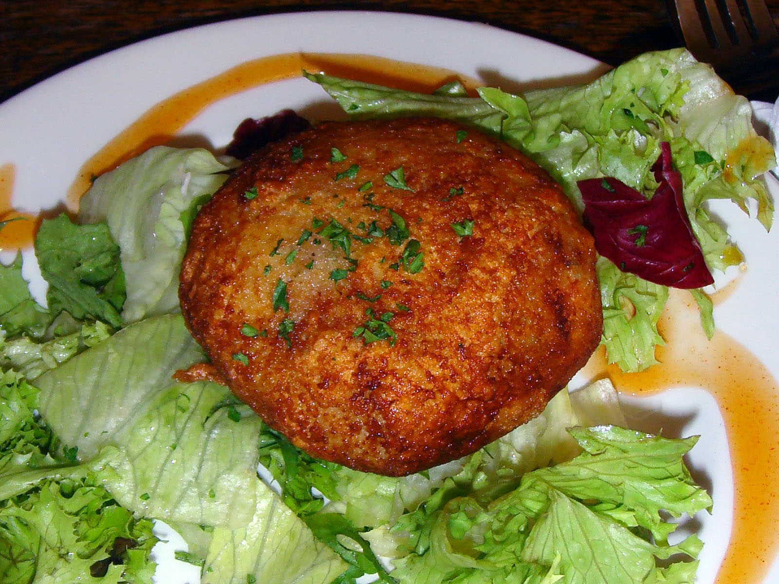 A "home-made" cod and salmon fishcake, served on salad with a sweet chilli dipping sauce